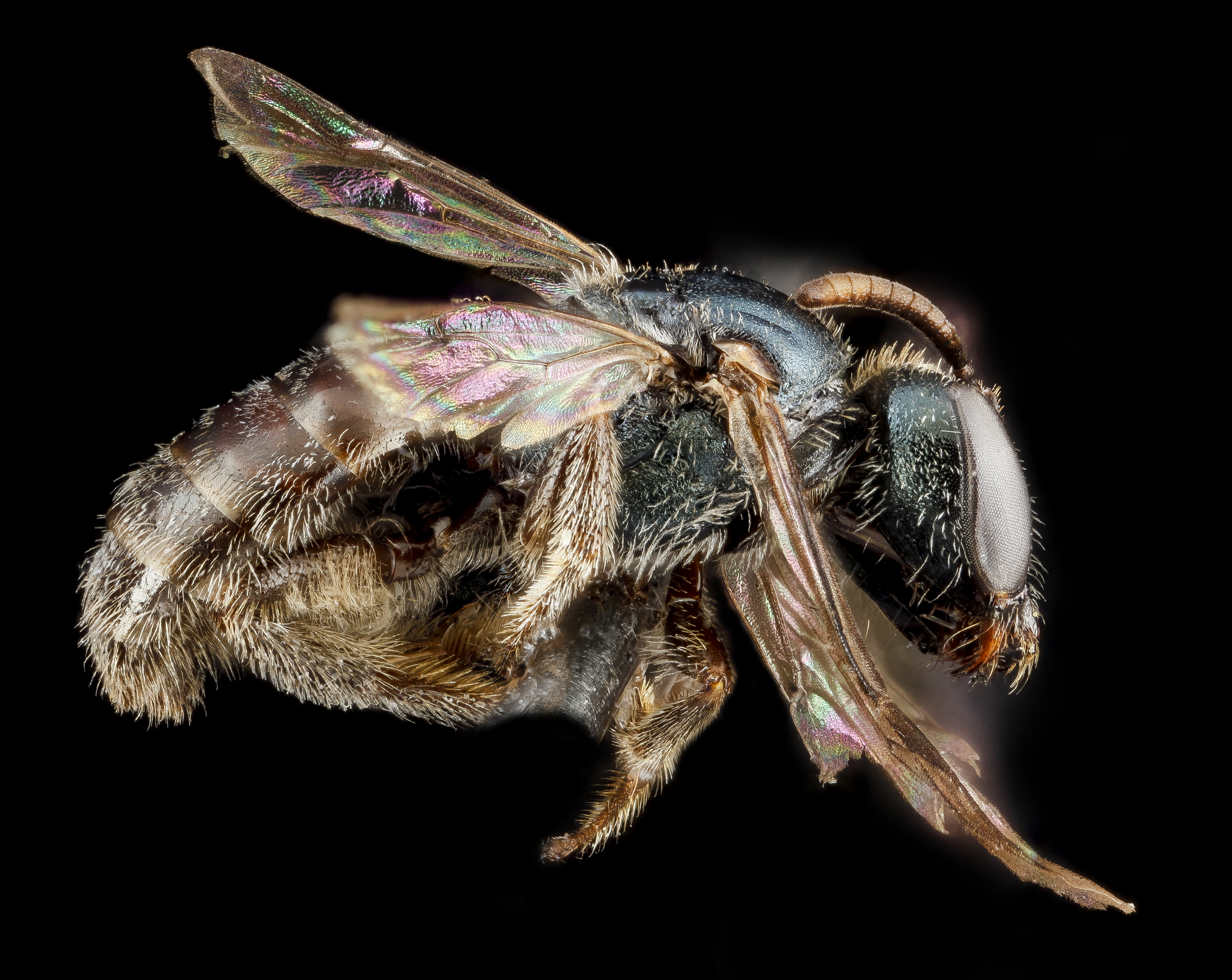 Lasioglossum halophitum, female. Captured as part of a Global Climate Change investigation in National Park Dune systems, yet another tricky Dialictus is photographed here. As the name suggests it is a lover of salt, in this case, salt marshes.. Photograph taken by Kamren Jefferson, bee captured in Timucuan Ecological & Historic Preserve